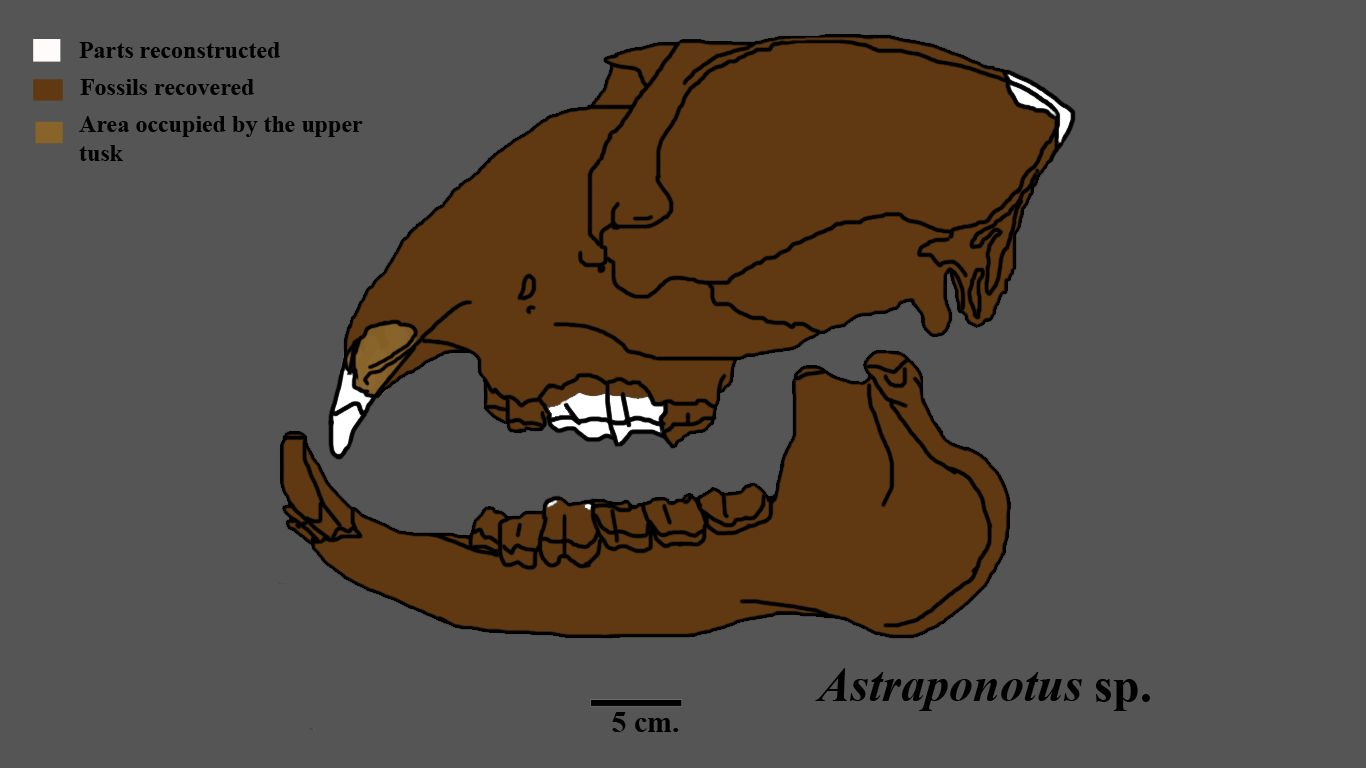 Recosntruction of the skull of the astrapothere Astraponotus, based on Kramarz et al., 2010.